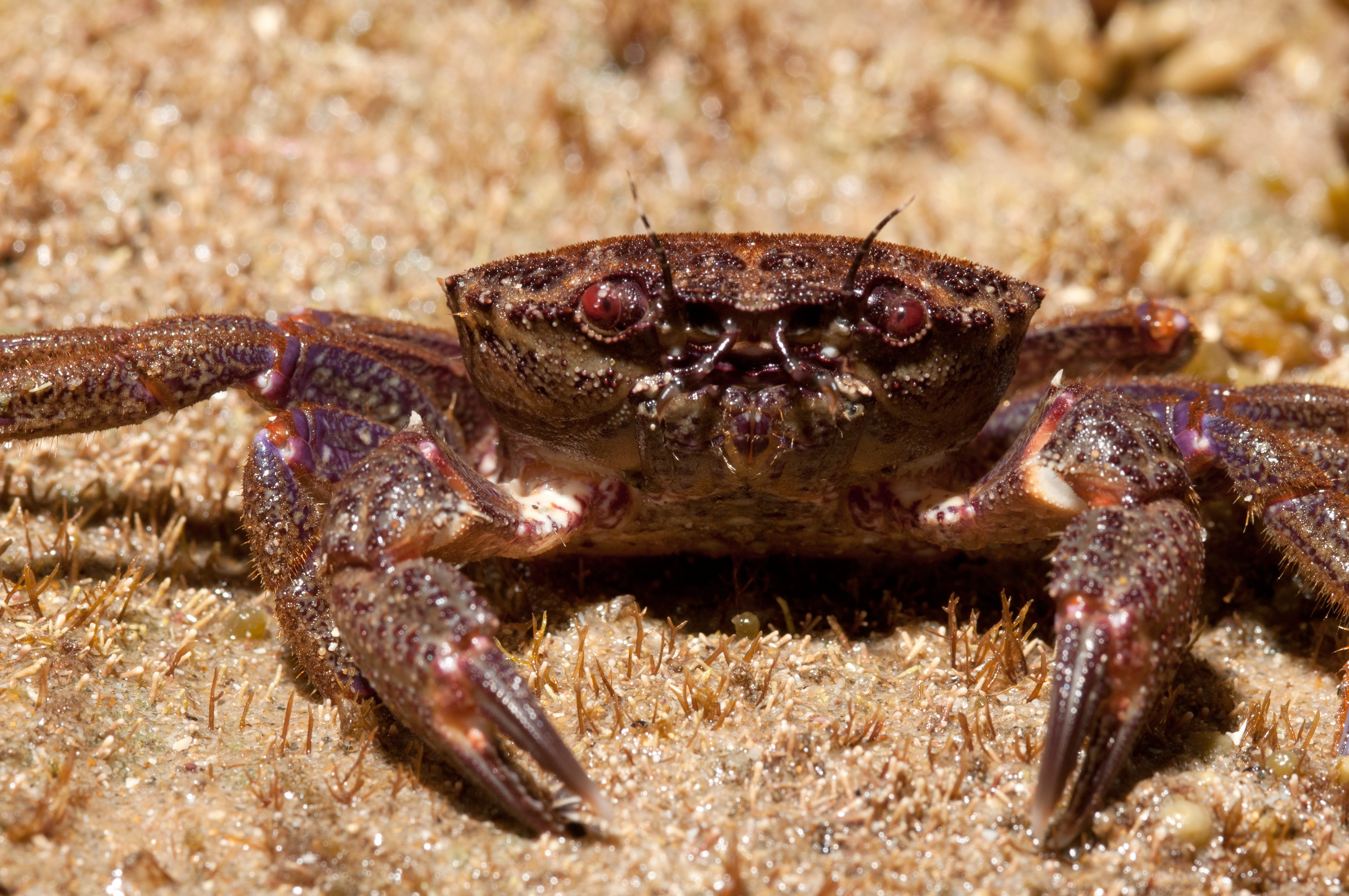 Velvet Crab, Nectocarcinus tuberculosus, Bunurong Marine National Park, Victoria.